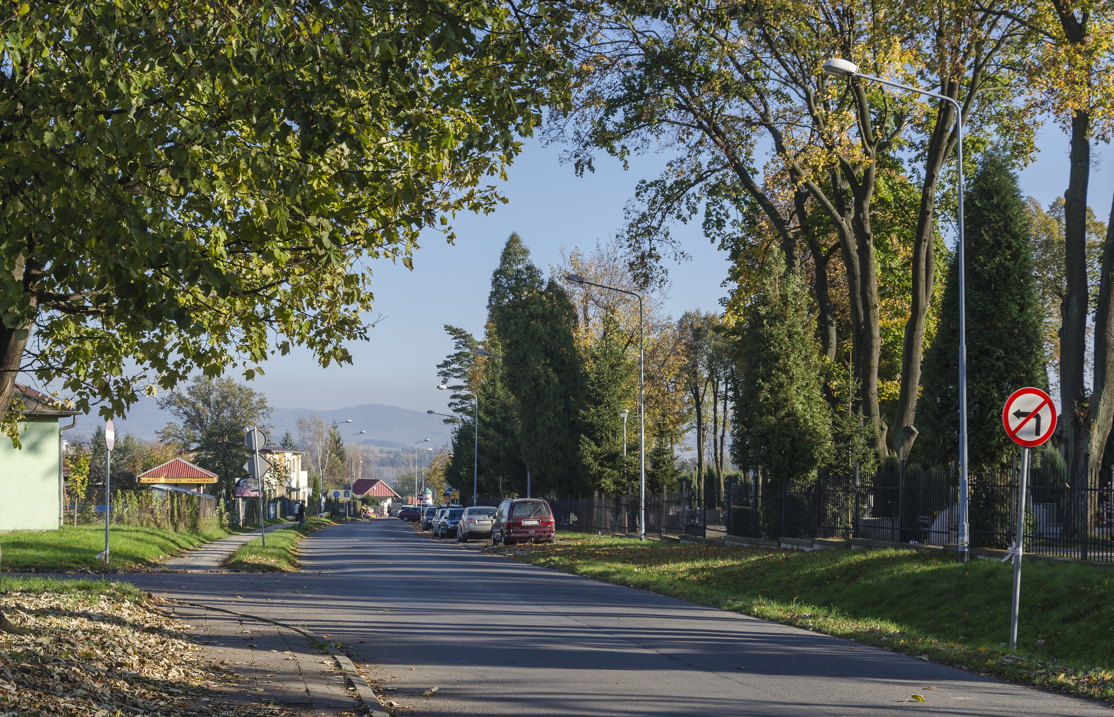 Korytowska Street in Kłodzko